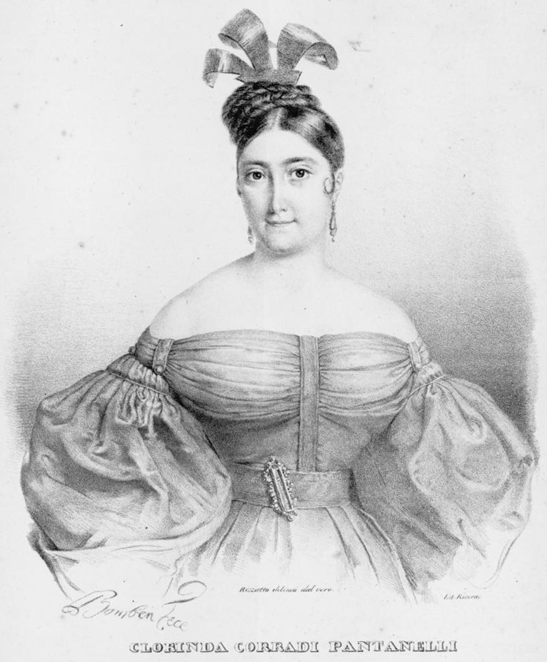 Clorinda Corradi Pantanelli